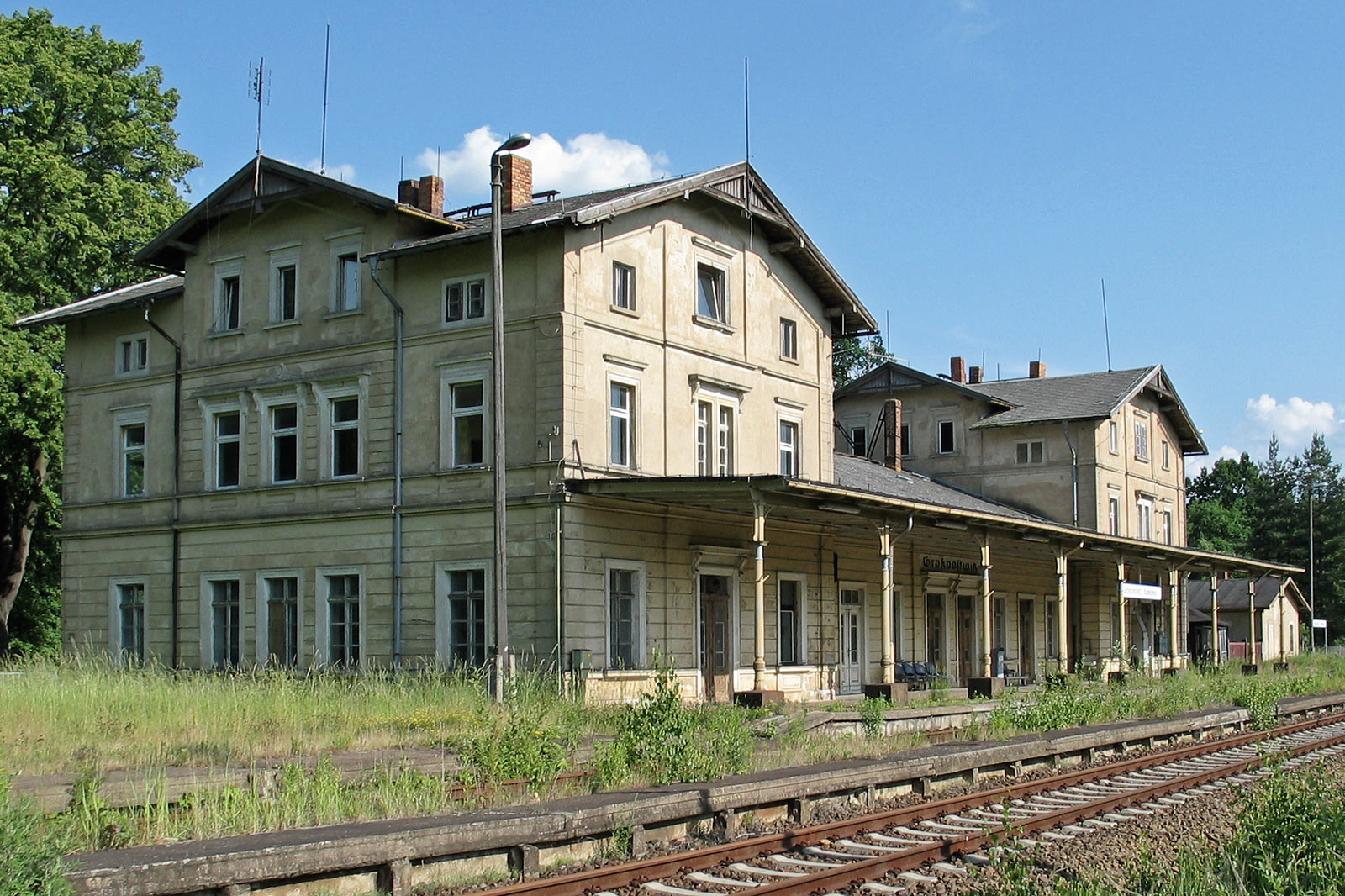 Former train station (1877–2004) in Großpostwitz, district Bautzen, Saxony, Germany.